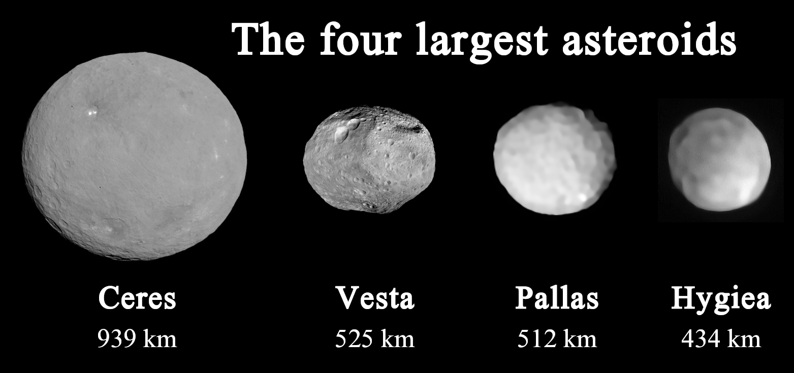 These are the four largest asteroids (known as "The Big Four"), Ceres (939 km), Vesta (525 km), Pallas (512 km), Hygiea (430 km).